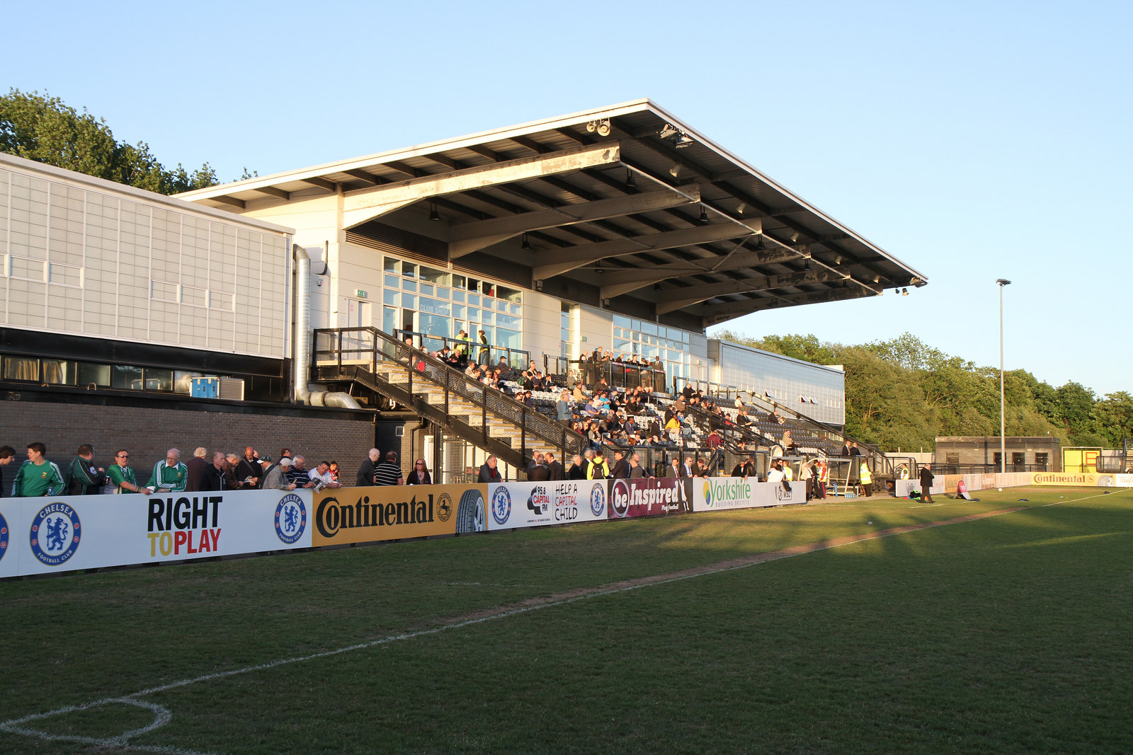 Imperial Fields, near to Morden, Merton, Great Britain.